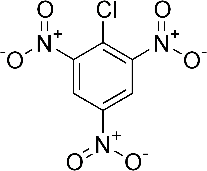 chemical structure of picryl chloride (2,4,6-trinitrochlorobenzene)